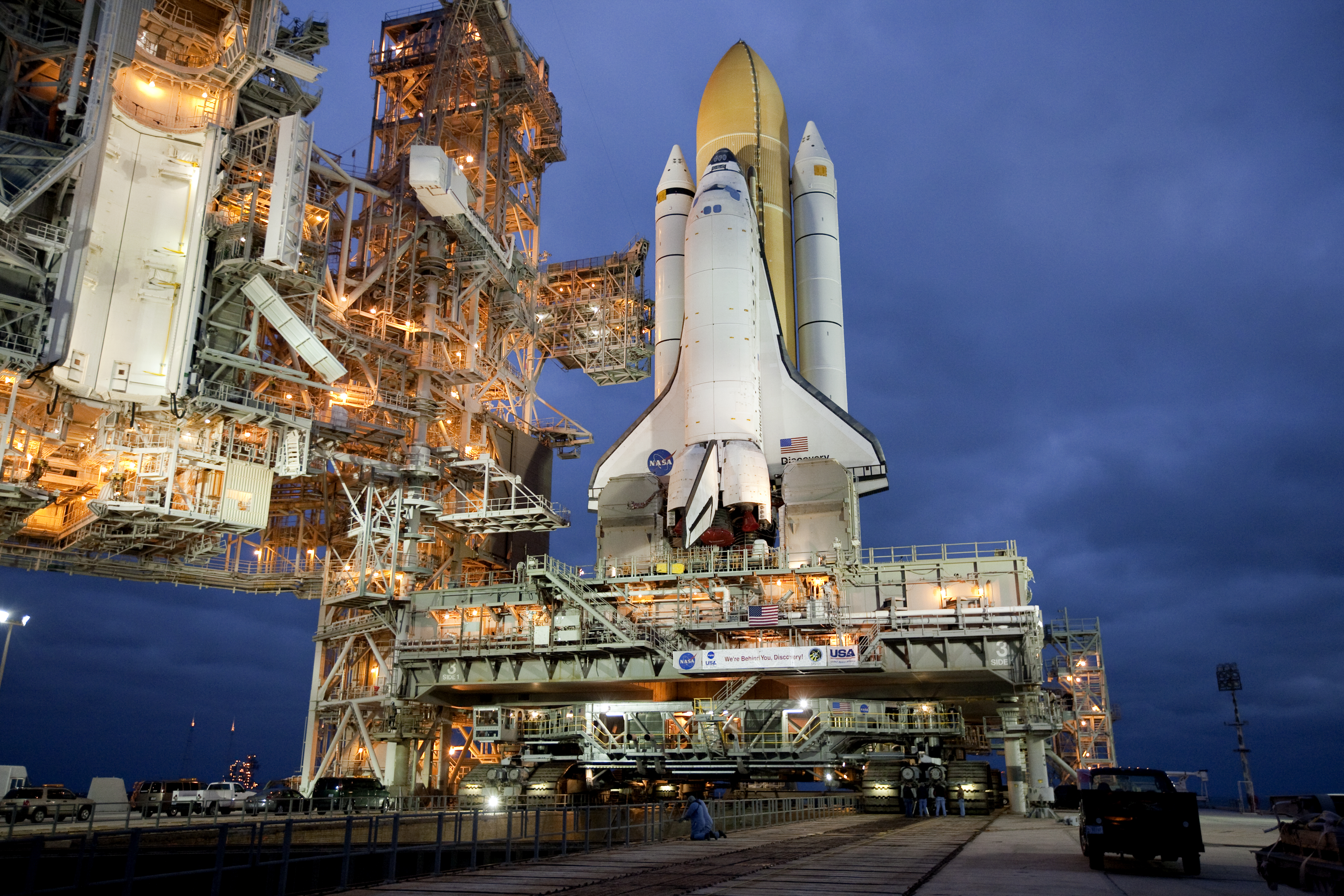 CAPE CANAVERAL, Fla. – Dawn at Launch Pad 39A at NASA's Kennedy Space Center in Florida finds NASA and United Space Alliance employees hard at work securing space shuttle Discovery to the pad. Discovery's first motion on its 3.4-mile trip from the Vehicle Assembly Building was at 11:58 p.m. EST March 2. The shuttle was secured on the pad at 6:48 a.m. March 3. Rollout is a significant milestone in launch processing activities. The seven-member STS-131 crew will deliver the multi-purpose logistics module Leonardo, filled with resupply stowage platforms and racks, to the International Space Station aboard Discovery. Targeted for launch on April 5, STS-131 will be the 33rd shuttle mission to the station and the 131st shuttle mission overall. For information on the STS-131 mission and crew, visit